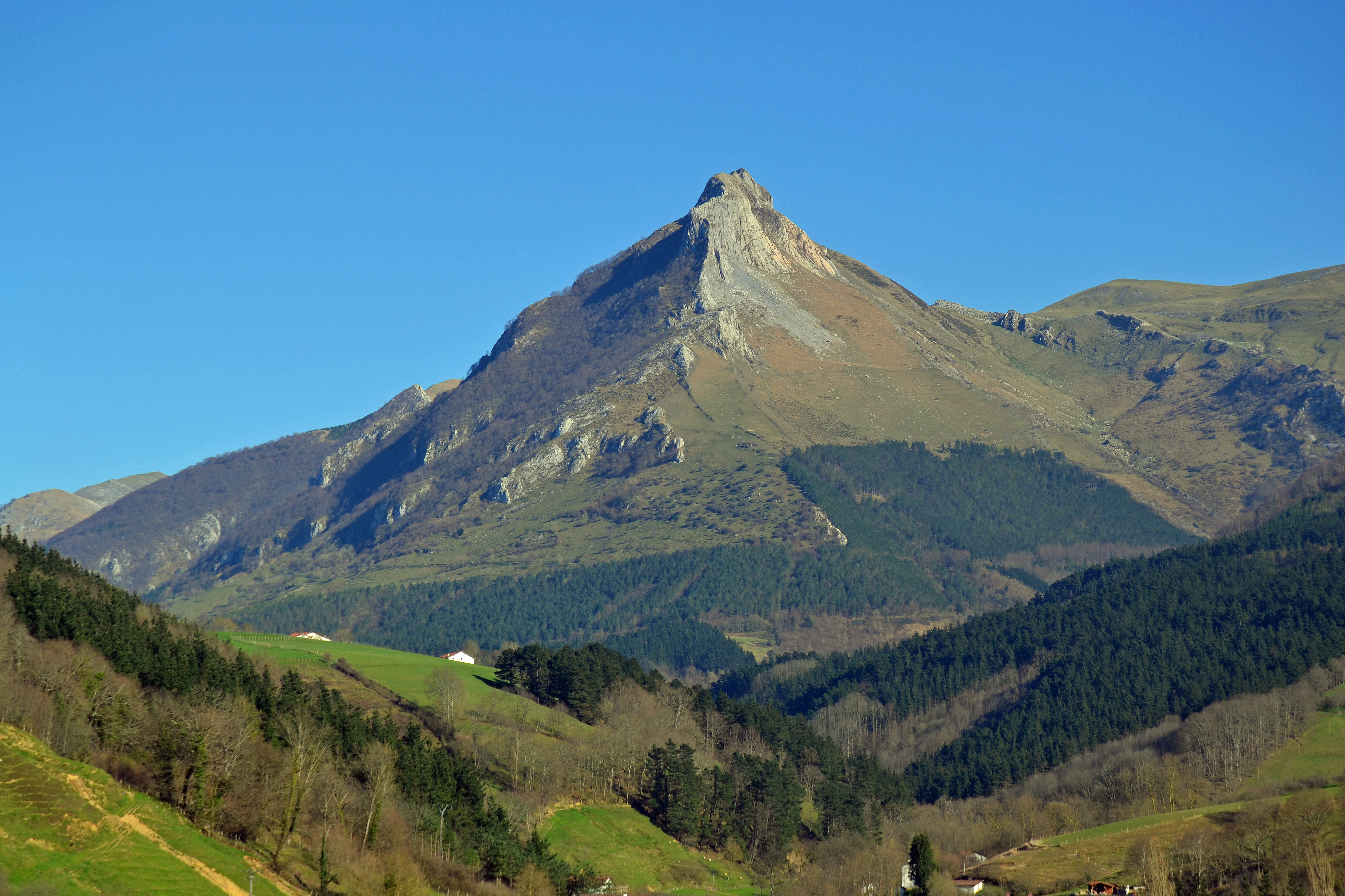 Larrunarri or Txindoki mountain from Zaldibia. Gipuzkoa, Basque Country